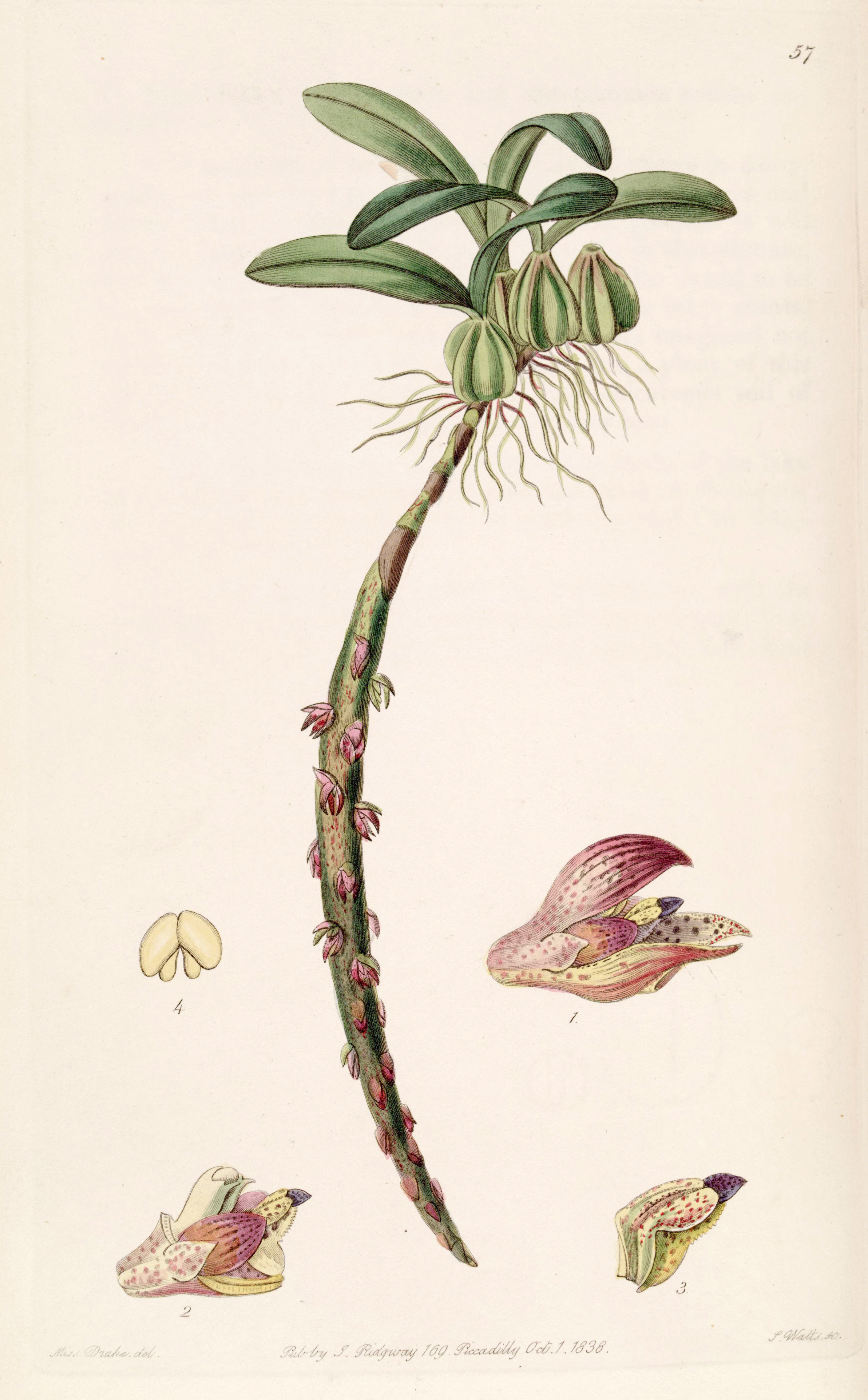 Bulbophyllum bracteolatum (spelled Bolbophyllum bracteolatum)